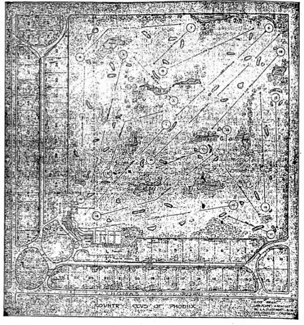 This is a site plan for Phoenix Country Club created by landscape architect Frank Lloyd Wright, Jr. in 1920.